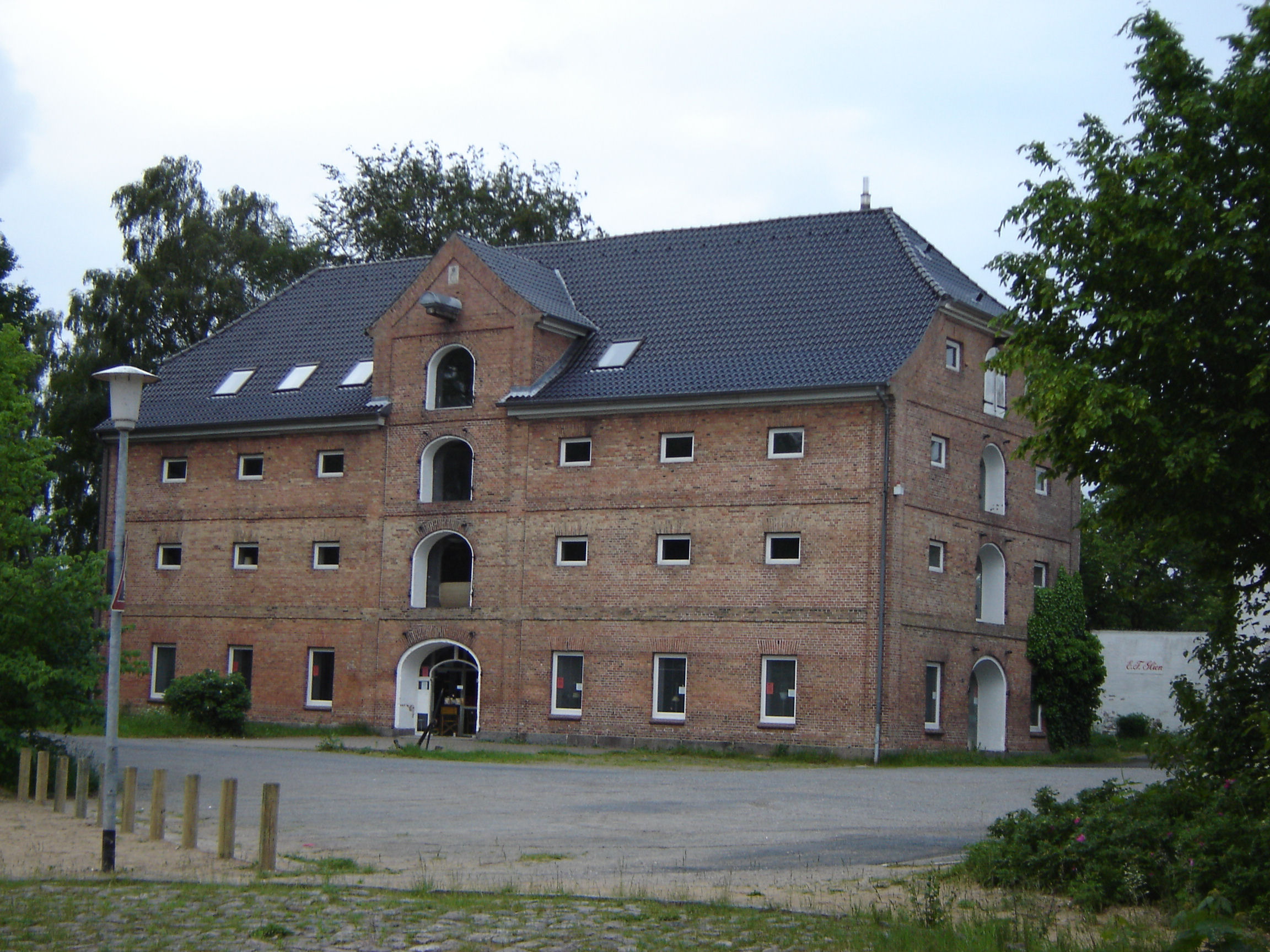 Own Foto (Jürgen Engel) Packhaus in Rendsburg (Germany)